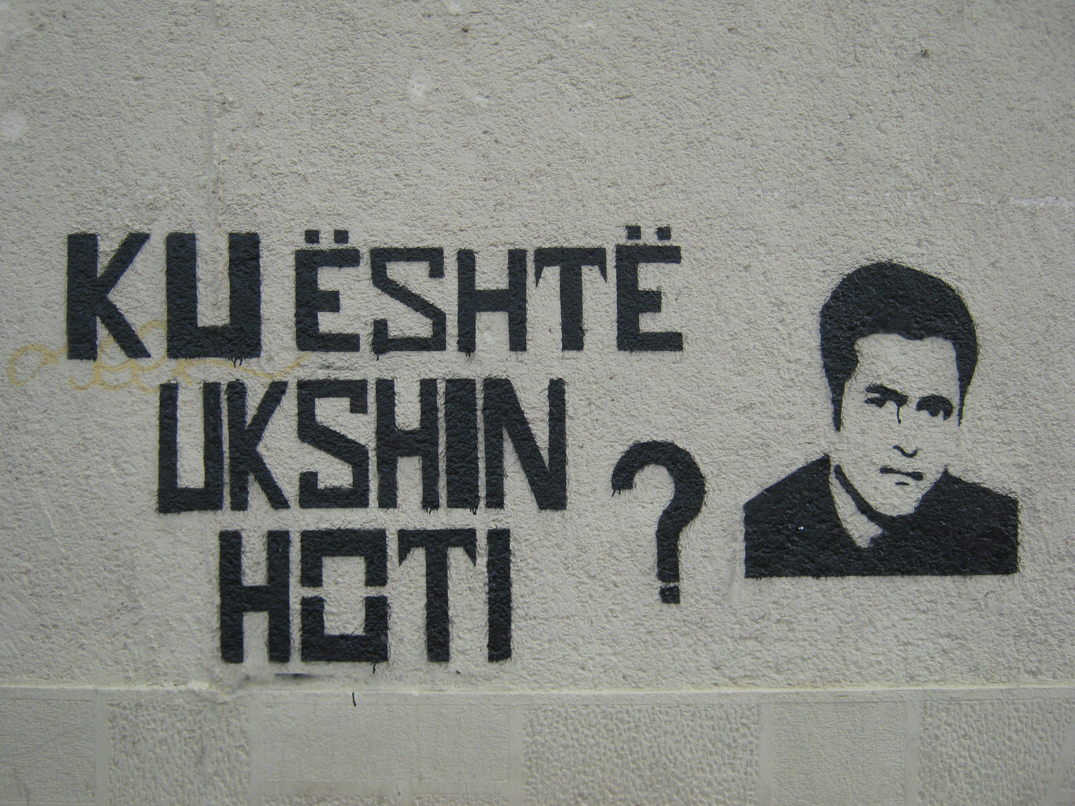 "Where is Ukshin Hoti?", a graffiti in Prishtina, Kosovo.